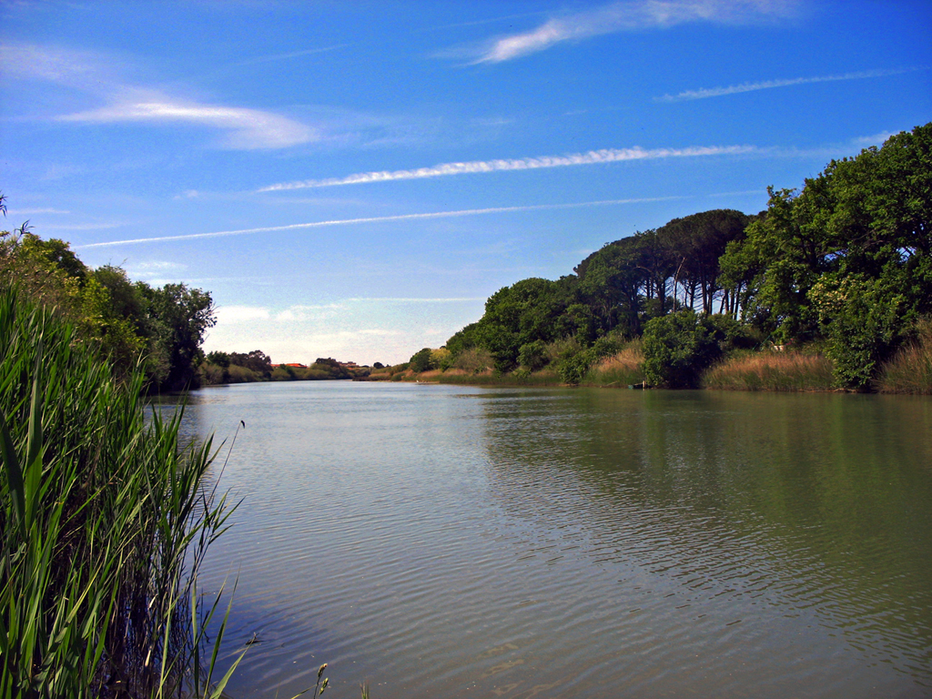 View of Cecina river (Cecina, Tuscany, Italy) near its mouth (Marina di Cecina).